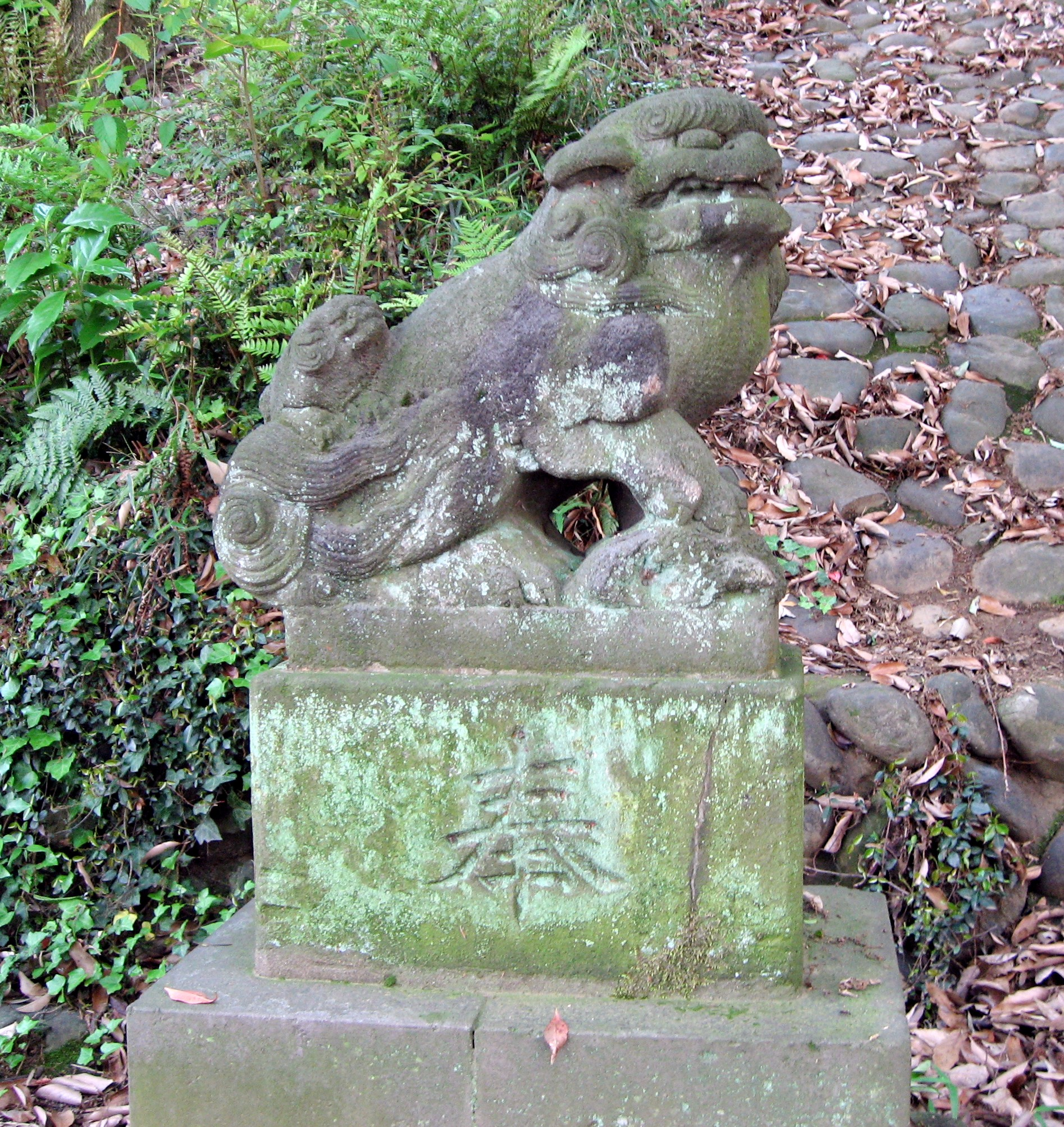 Komainu (stone lion) of Oomatono Tsunoten Shinto Shrine in Inagi, Tokyo, Japan.